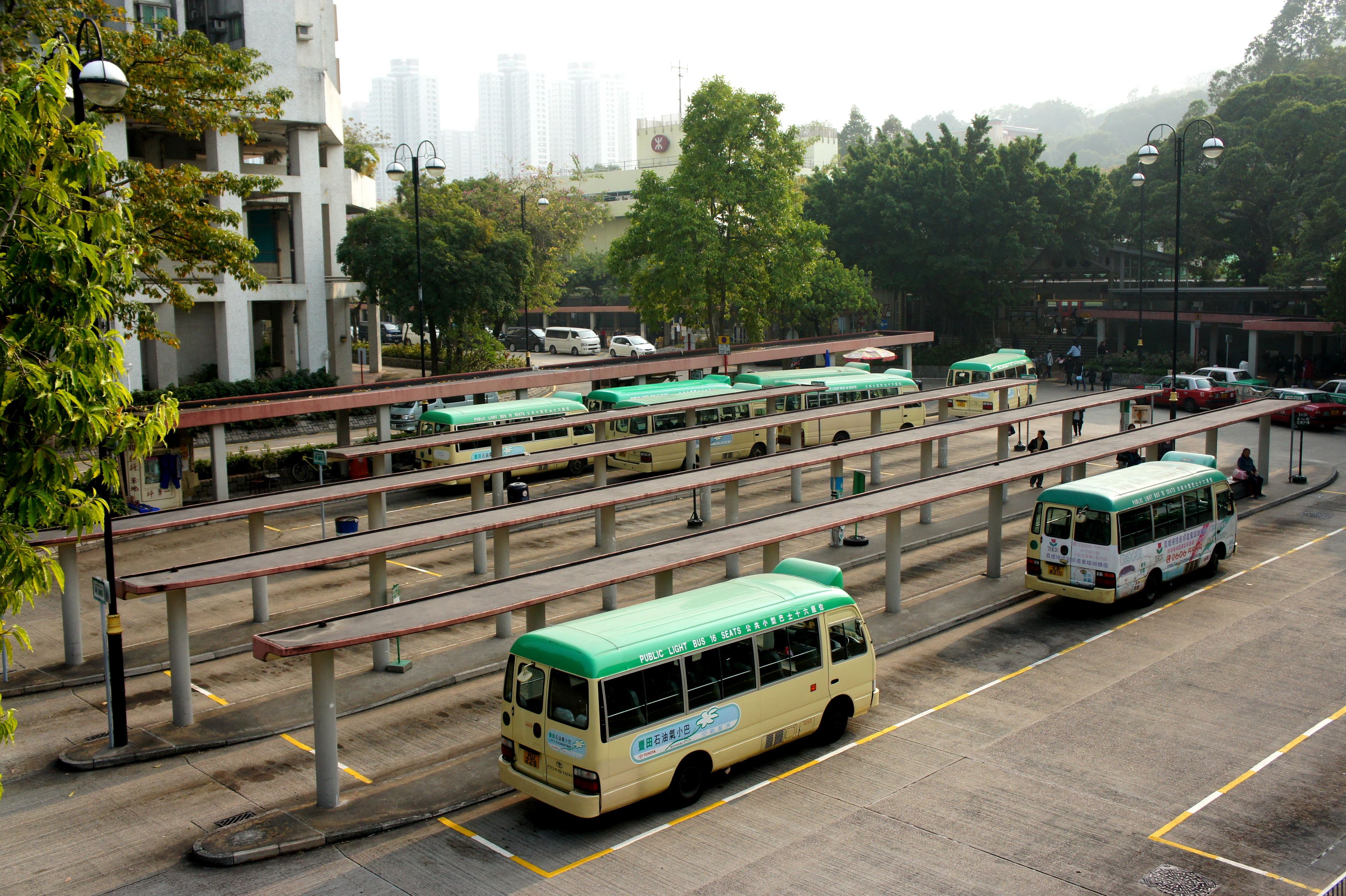 Fanling MTR Station minibus terminus, Fanling, New Territories, Hong Kong.